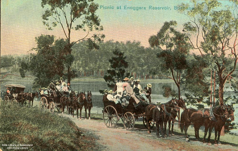 Picnic at Enoggera Reservoir, Brisbane Hand coloured postcard of picnickers on their way to a picnic at the Enoggera Reservoir, around 1900. They are travelling to the picnic in horse-drawn carriages. The women are wearing ruffled blouses with skirts, the men pants, jackets and boater hats. The reservoir can be seen in the background.